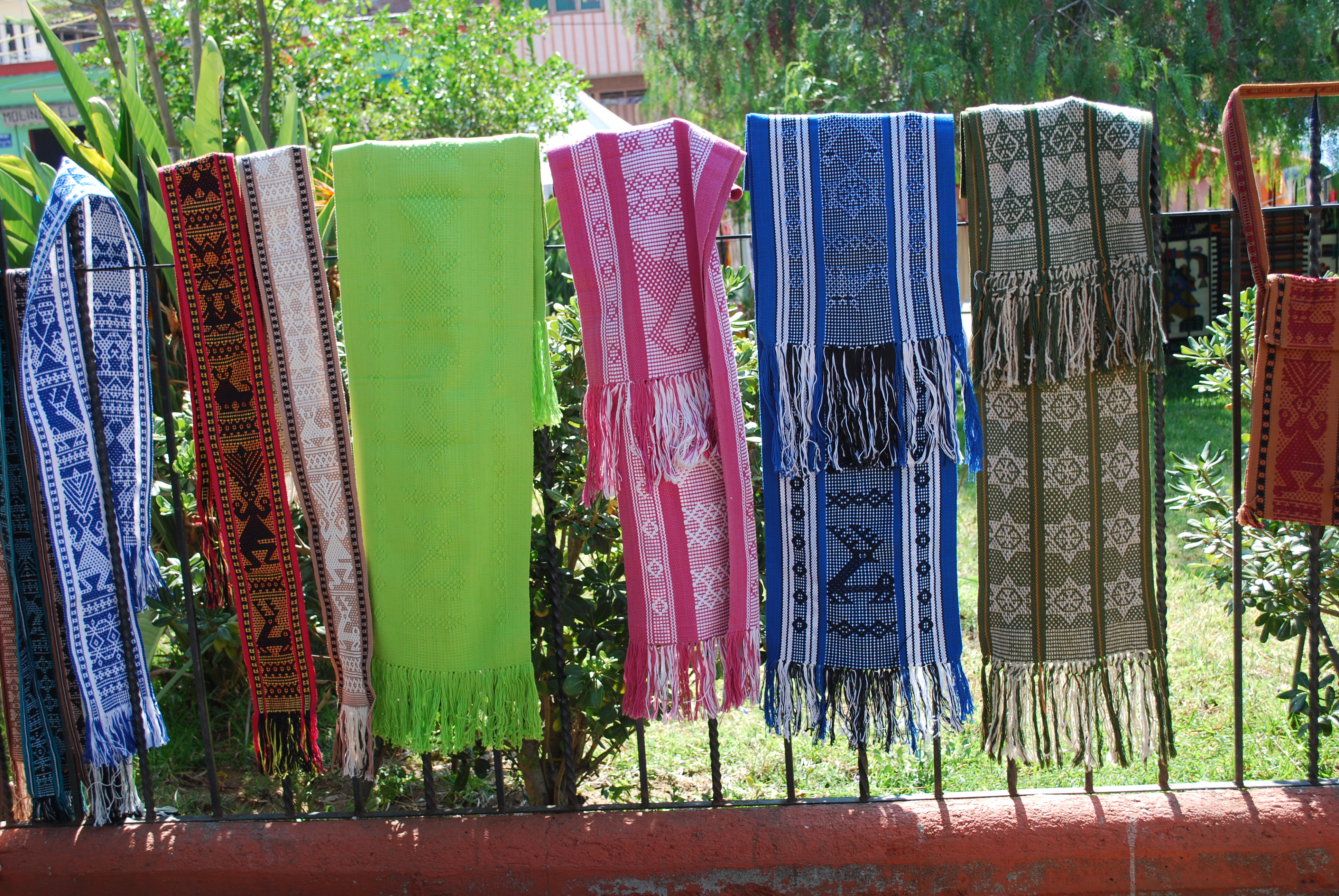 Handwoven rebozos and belts for sale in Zaachila Oaxaca on market day